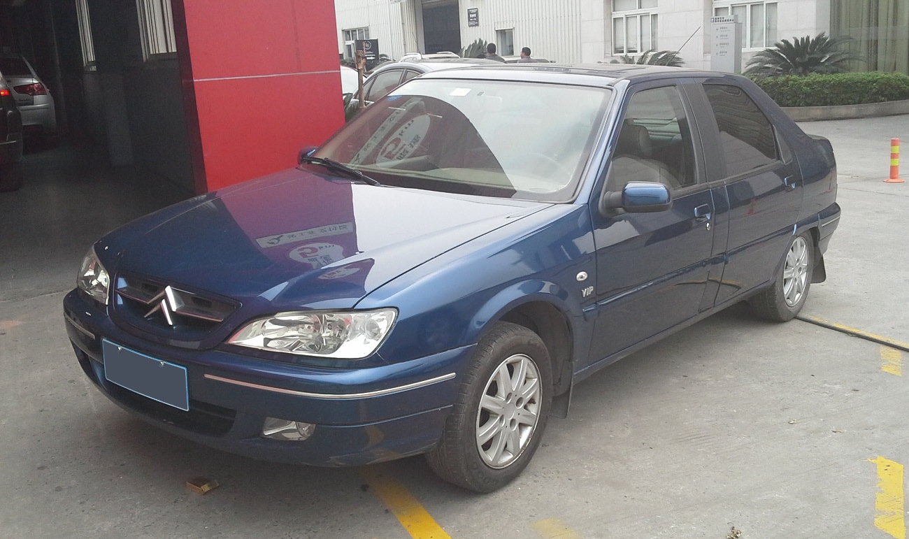 Citroën Elysée VIP photographed in Chongqing, China.